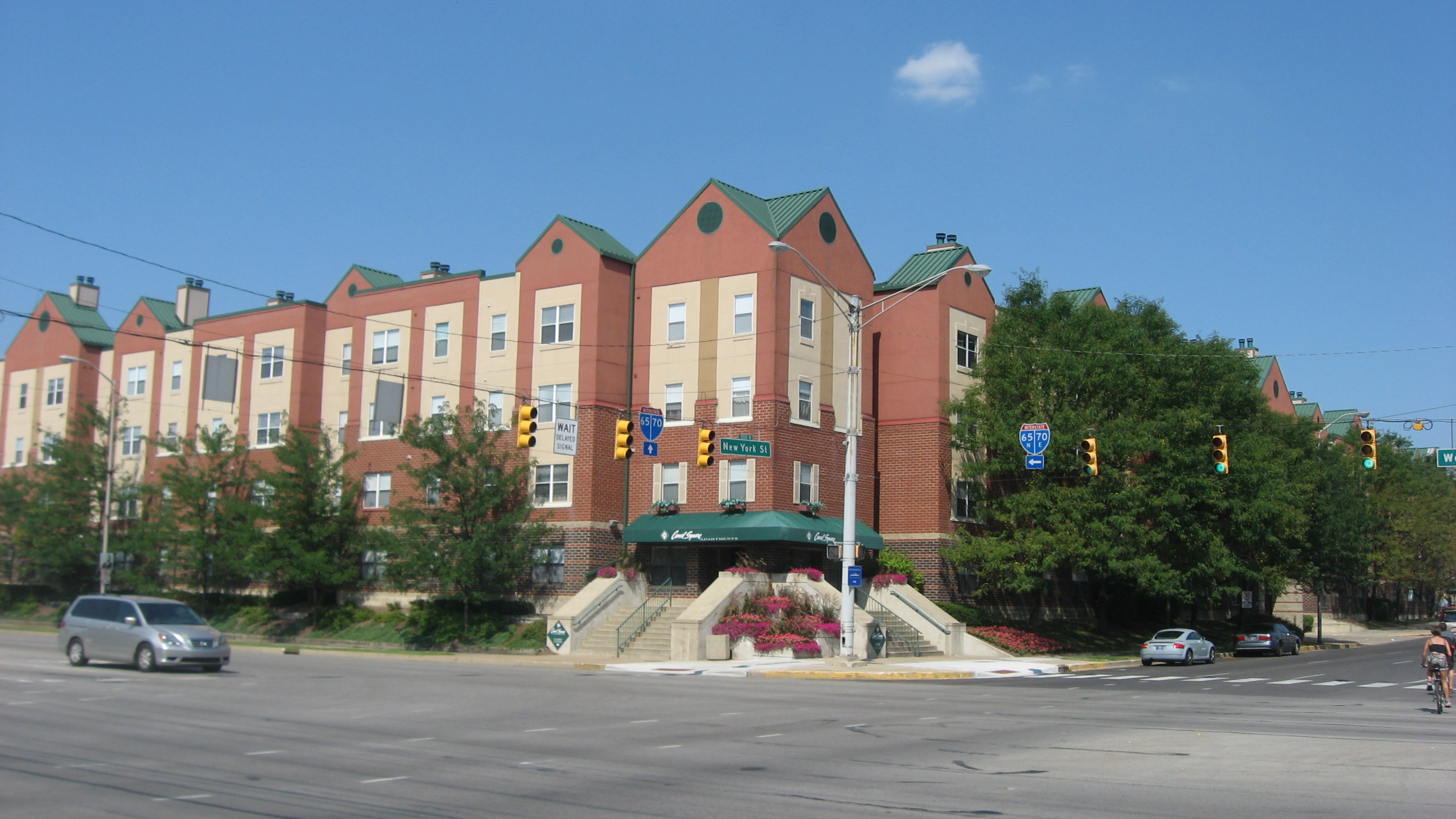 Front and side of the Canal Square Apartments, located at 359 N. West Street in Indianapolis, Indiana, United States. The complex occupies the site of the Indianapolis Chair Manufacturing Company, which was listed on the National Register of Historic Places before it was destroyed.